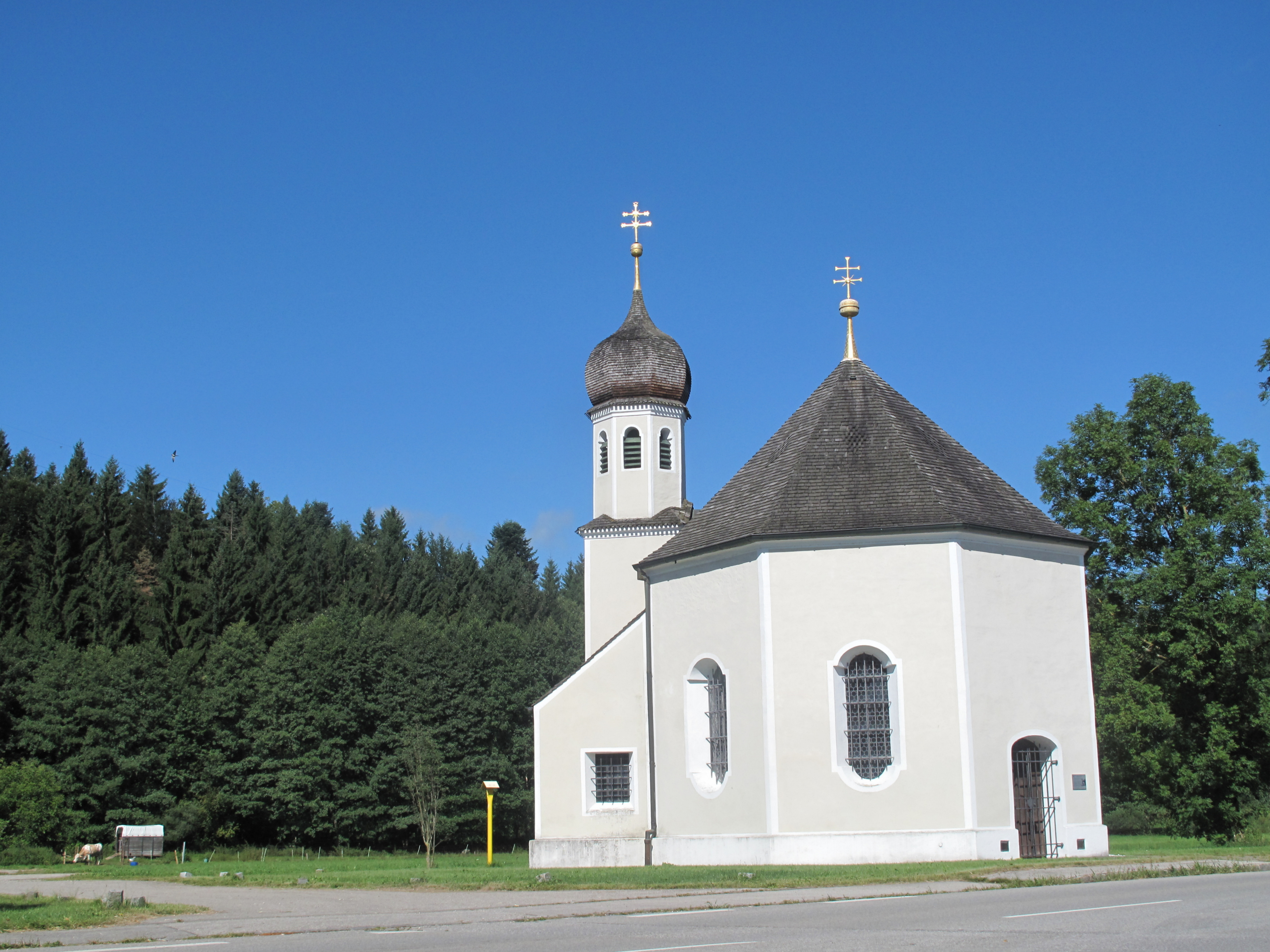 Geretsried, church: die Sankt Nikolaus Kirche